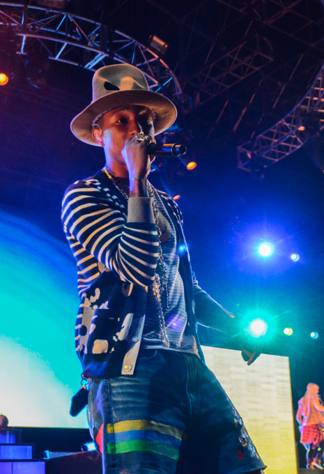 Pharrell Williams performing at the 2014 Coachella Valley Music and Arts Festival.